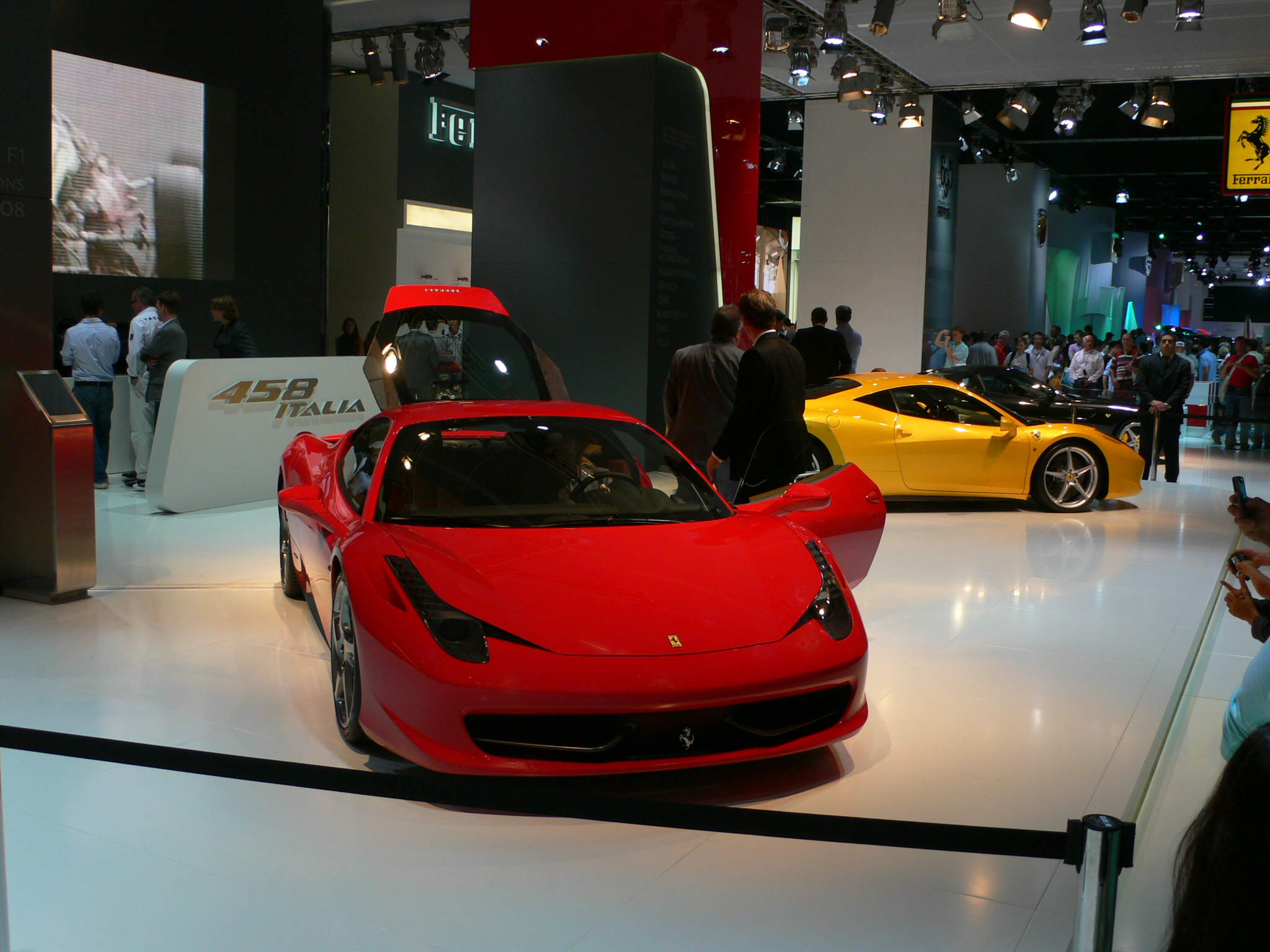 Ferrari 458 Italia